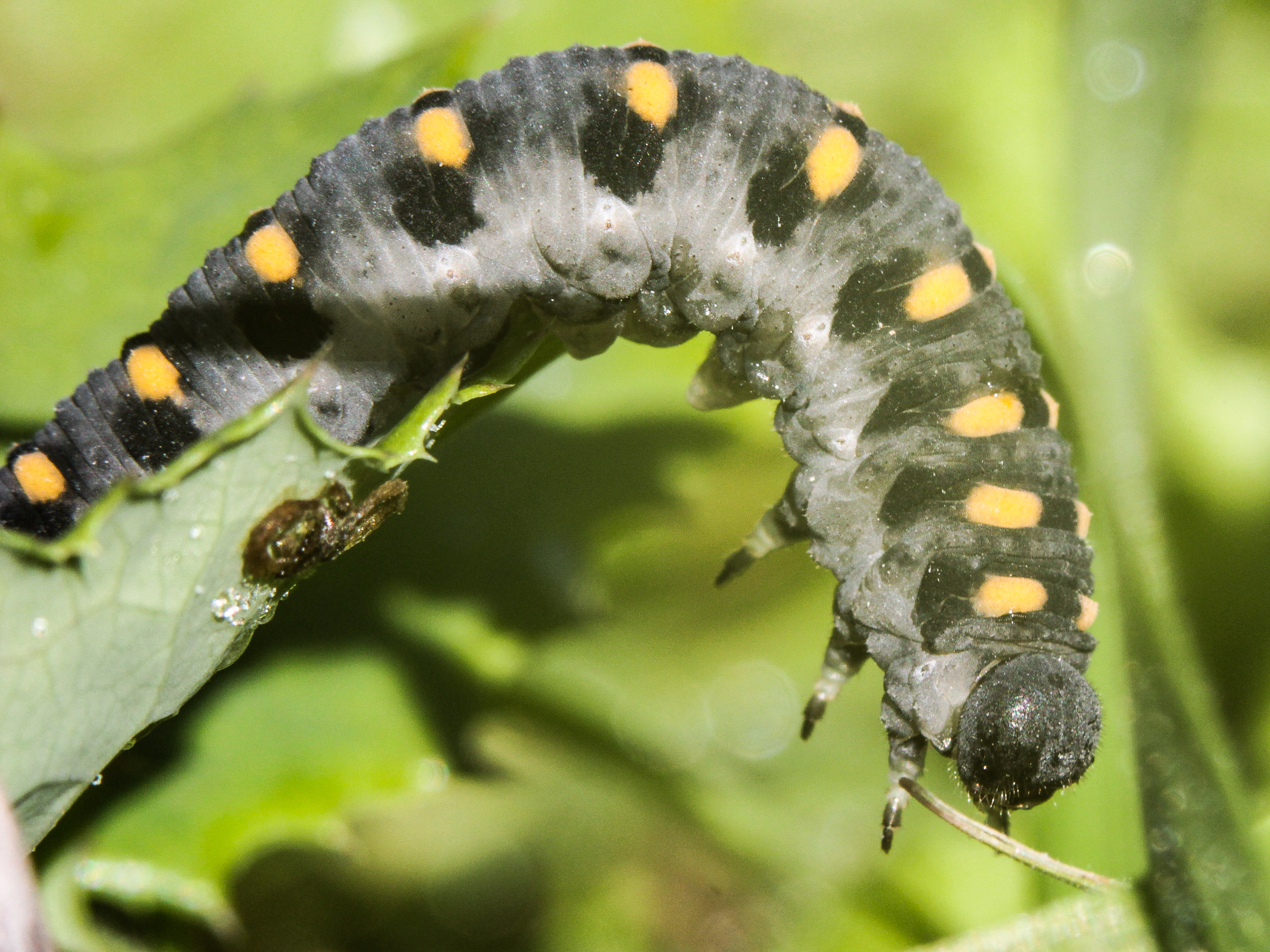 Larvae of Abia sericea from Sardinia, Italy